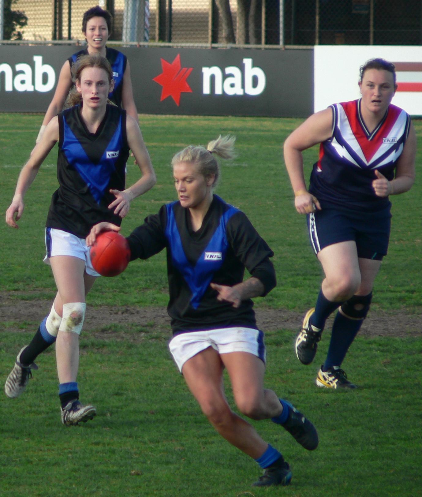 Action from the 2007 VWFL first division grand final between Melbourne University and Darebin Falcons